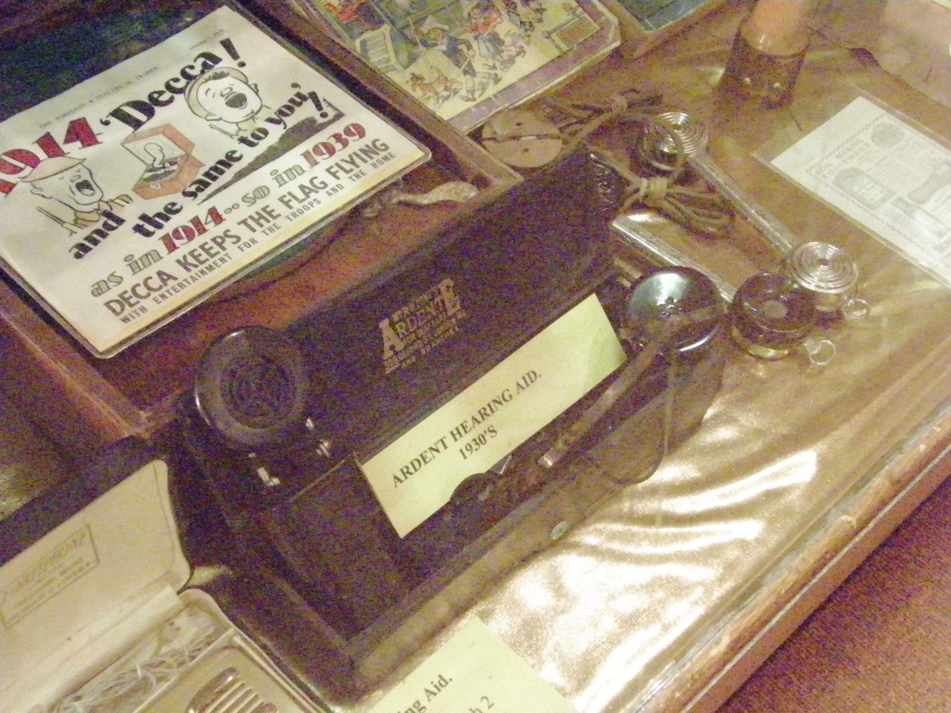 A picture of an Ardent hearing aid from the 1930's. It is a part of the Orkney Wireless Museum collection.